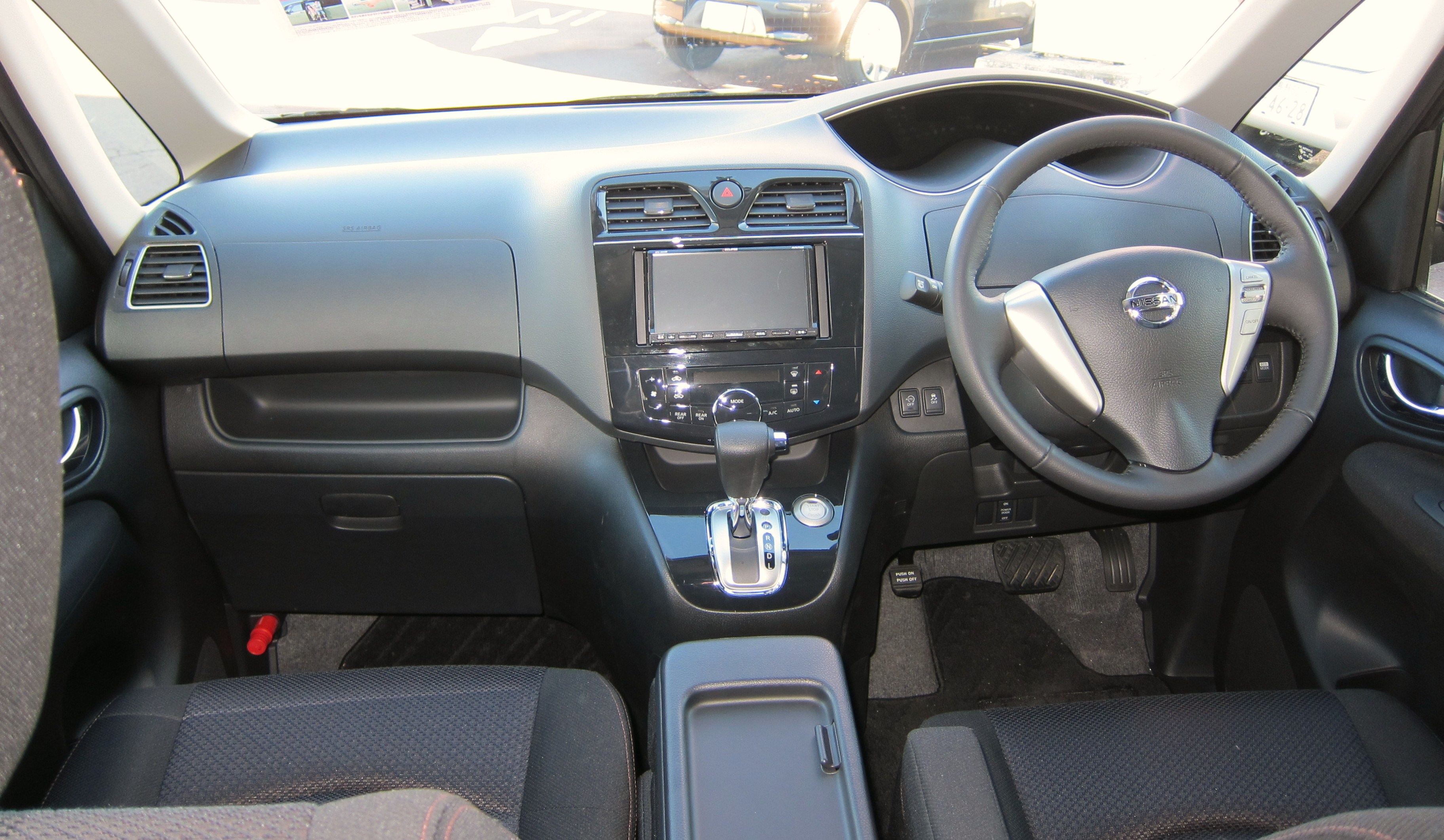 Nissan Serena